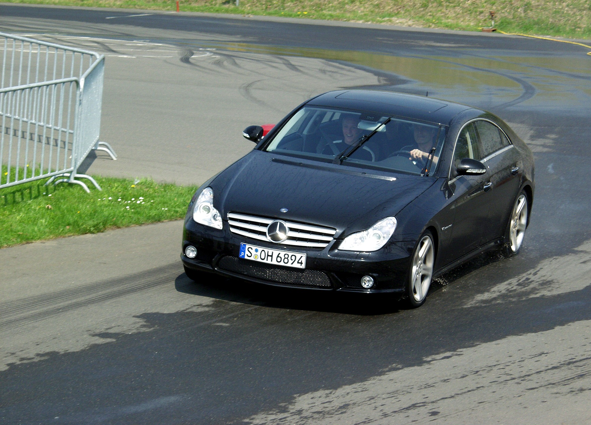 Mercedes AMG CLS 55 - Demonstration of drifting at the "Fahrsicherheitszentrum Nürburgring"